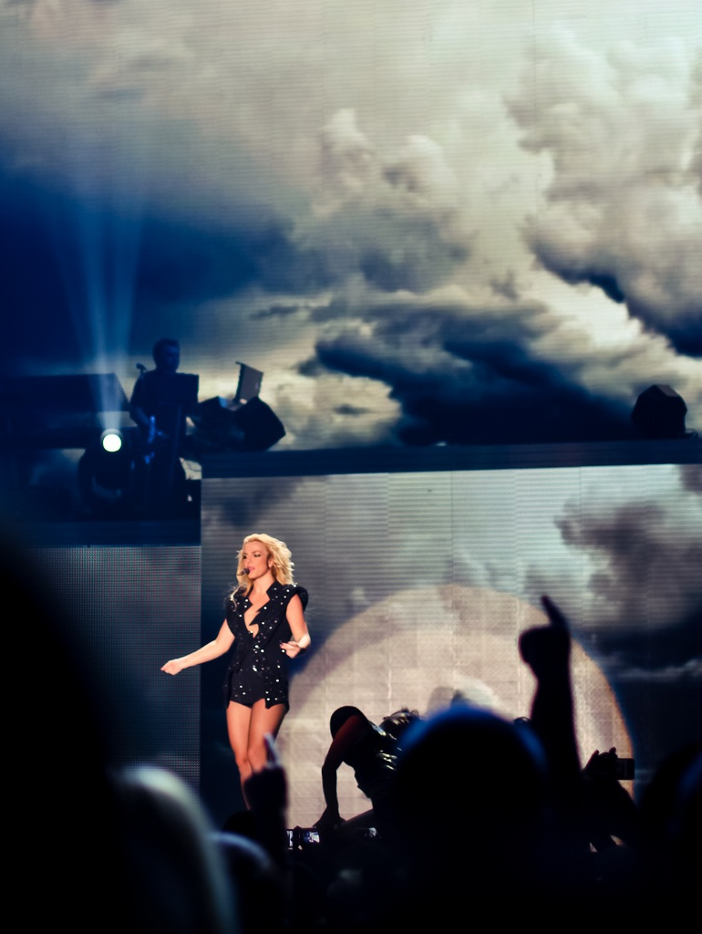 Britney Spears performing "Till the World Ends" at 2011's Femme Fatale Tour live in Ukraine.